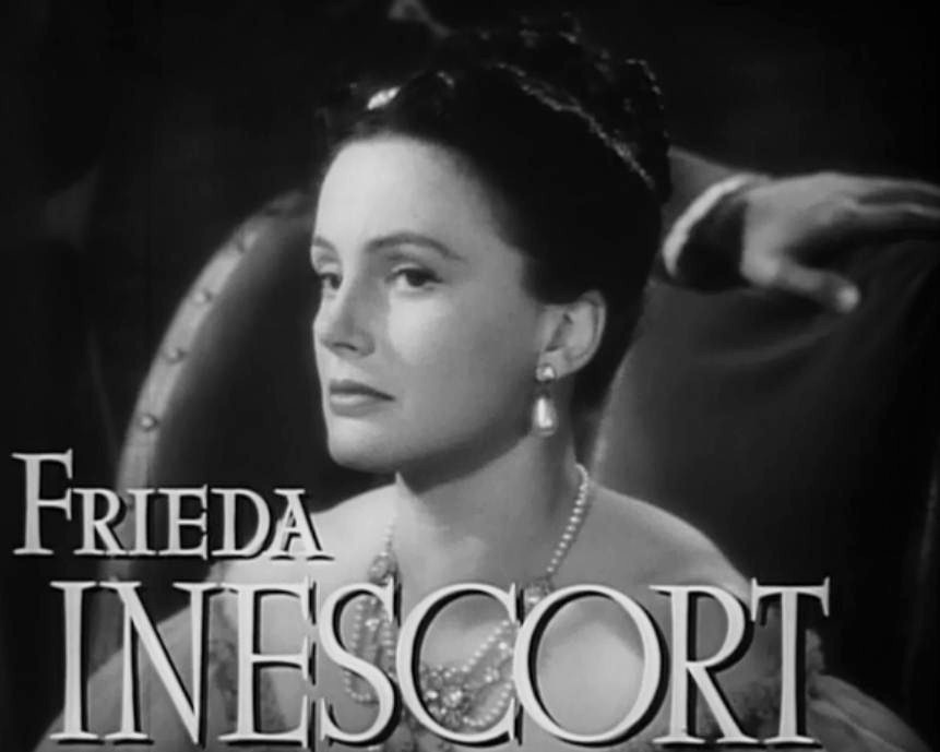 British actress Frieda Inescort (1901-1976) in the american film Pride and Prejudice - trailer